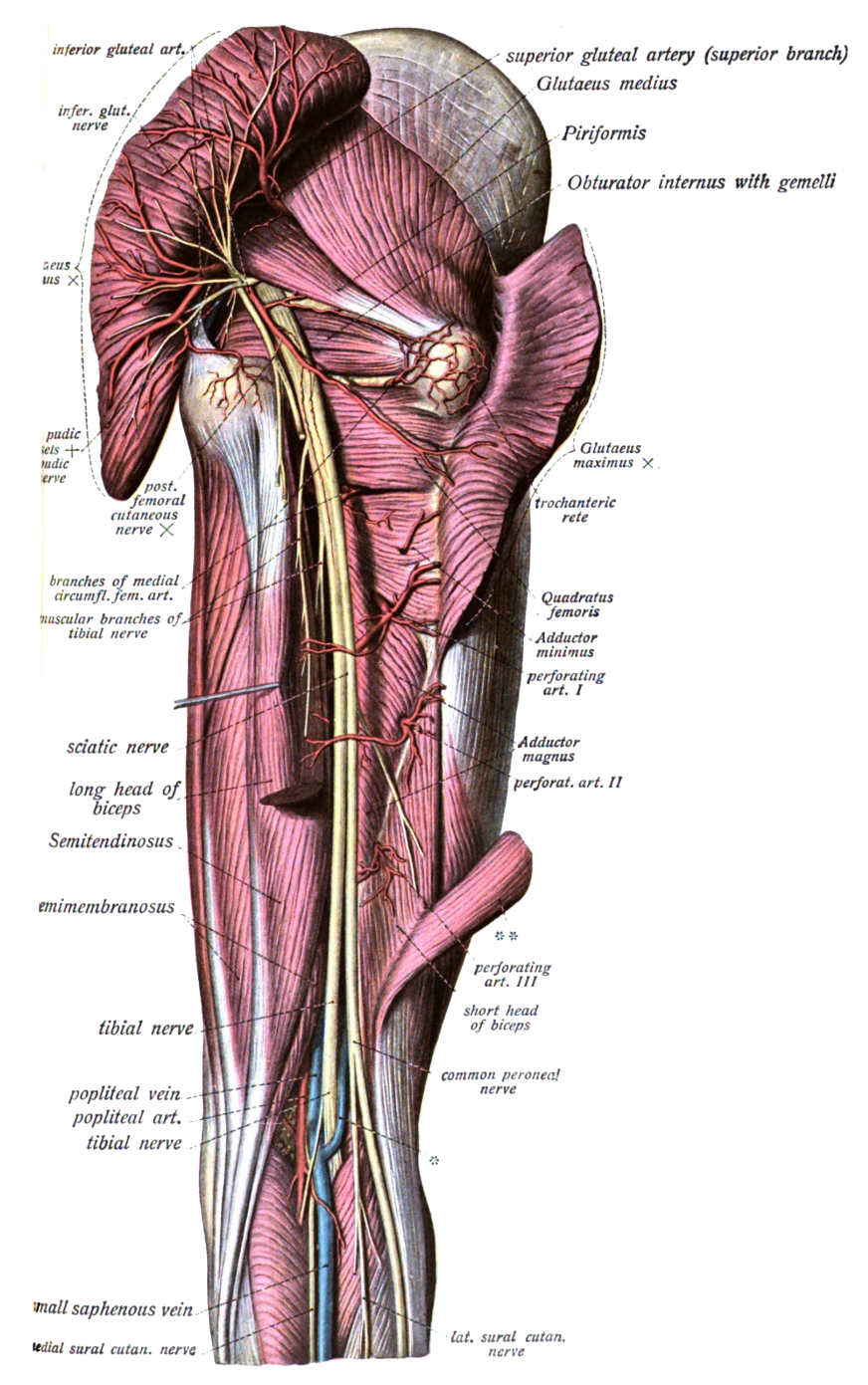 An anatomical illustration from Sobotta's Human Anatomy 1908